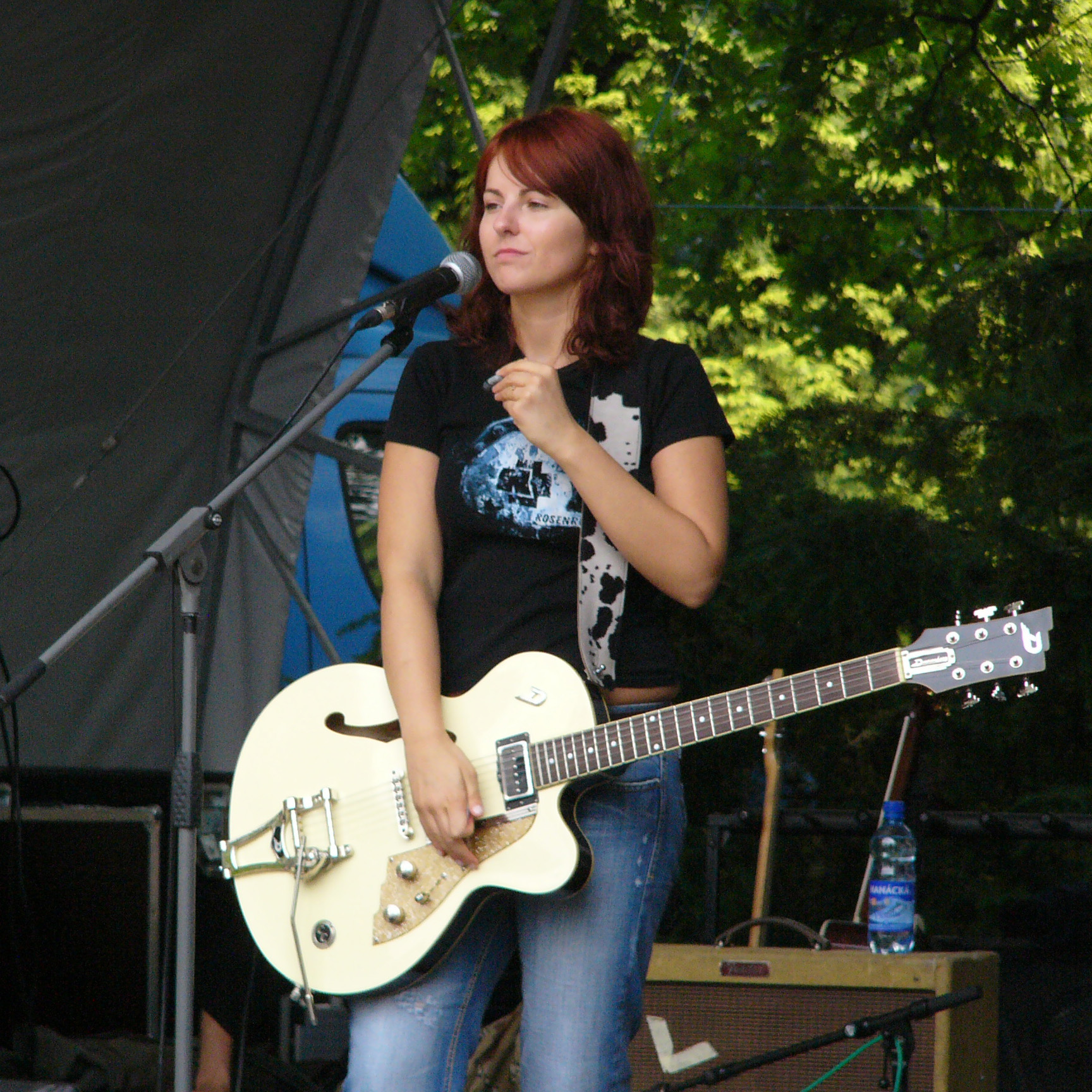 Katarína Knechtová, a singer of Slovak music band PEHA in June 2007.